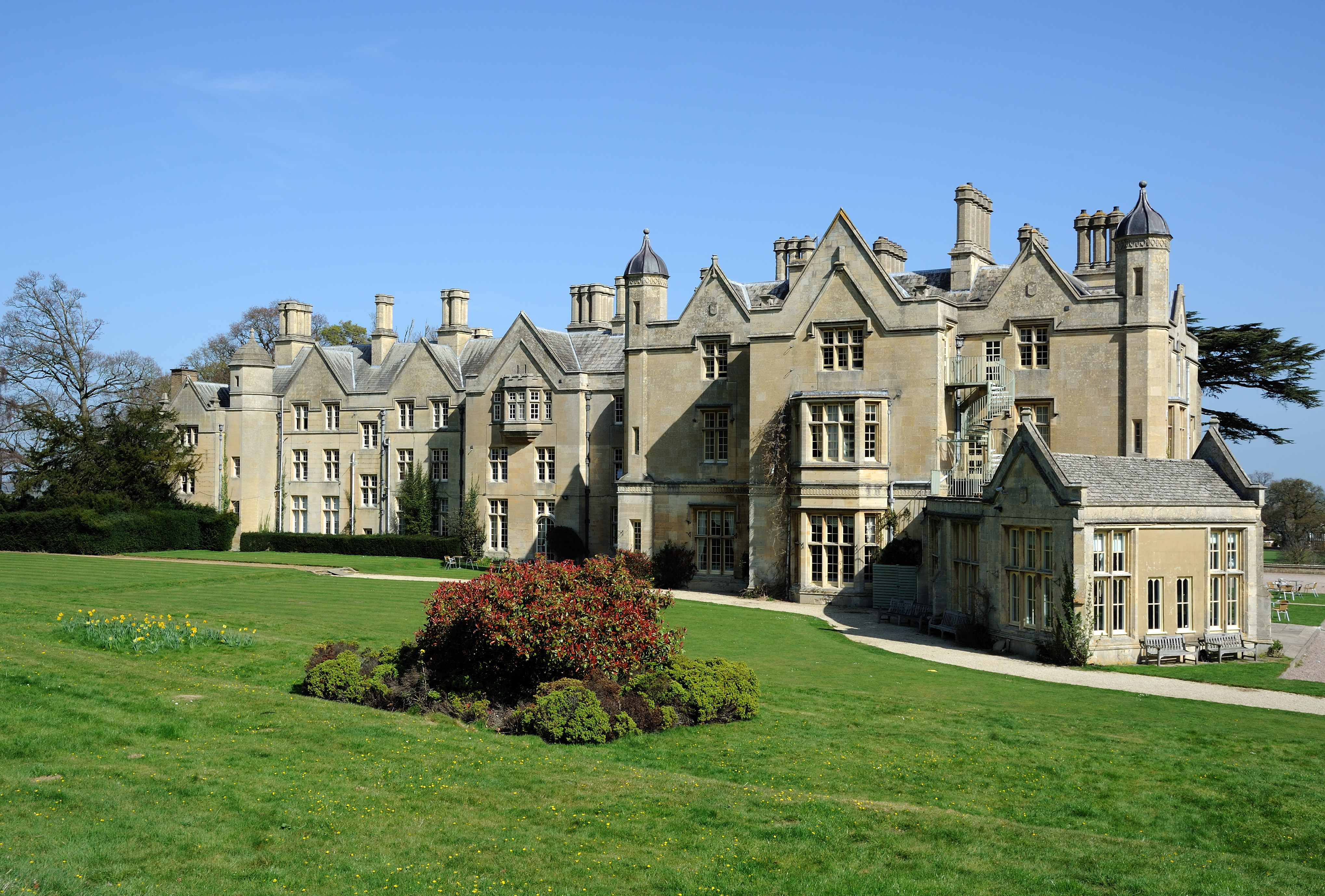 Dumbleton Hall was built mid 19th century using Cotswold stone, and became home to the Eyres family.